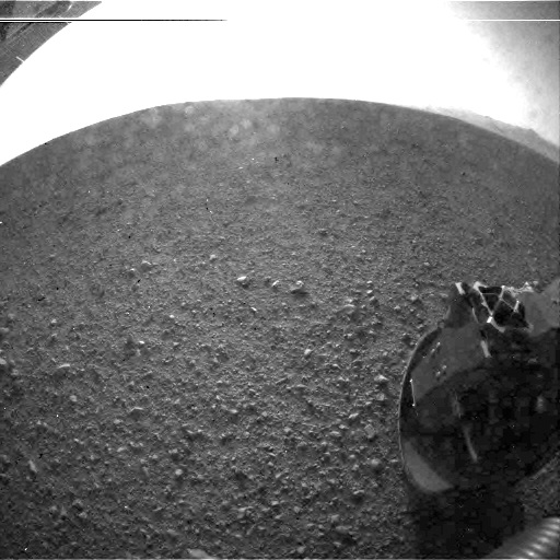 This is one of the first images taken by NASA's Curiosity rover, which landed on Mars the evening of Aug. 5 PDT (morning of Aug. 6 EDT). It was taken through a "fisheye" wide-angle lens on the left "eye" of a stereo pair of Hazard-Avoidance cameras on the left-rear side of the rover. The image is one-half of full resolution. The clear dust cover that protected the camera during landing has been sprung open. Part of the spring that released the dust cover can be seen at the bottom right, near the rover's wheel. On the top left, part of the rover's power supply is visible. Some dust appears on the lens even with the dust cover off. The cameras are looking directly into the sun, so the top of the image is saturated. Looking straight into the sun does not harm the cameras. The lines across the top are an artifact called "blooming" that occurs in the camera's detector because of the saturation. As planned, the rover's early engineering images are lower resolution. Larger color images from other cameras are expected later in the week when the rover's mast, carrying high-resolution cameras, is deployed.